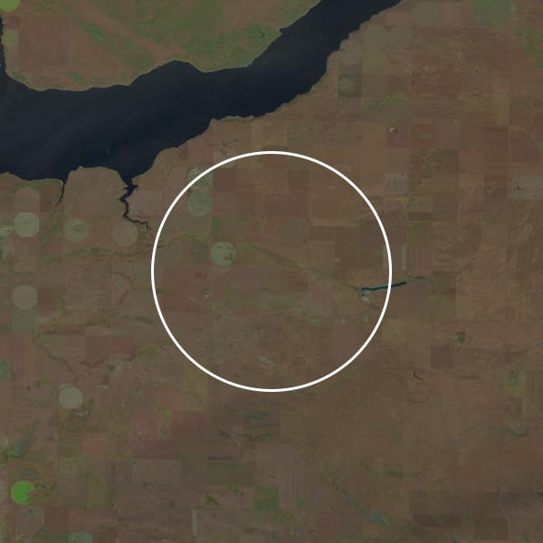 Circle shows the approximate rim of the 8 km diameter Elbow crater, an eroded and buried impact crater in south-central Saskatchewan, Canada. Image acquired on 6 October 2018. LC08 L1TP 037024 20181006 20181010 01 T1 is the Landsat image designation.